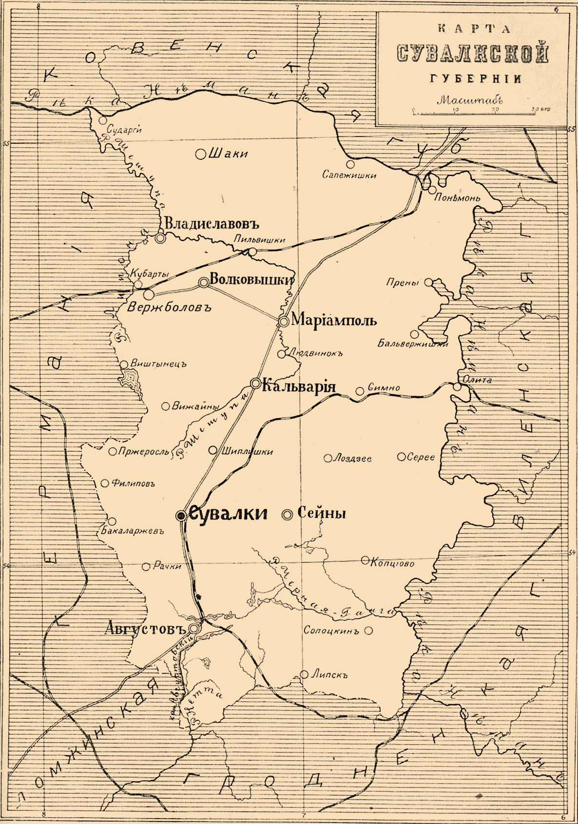 Illustration from Brockhaus and Efron Jewish Encyclopedia (1906—1913)